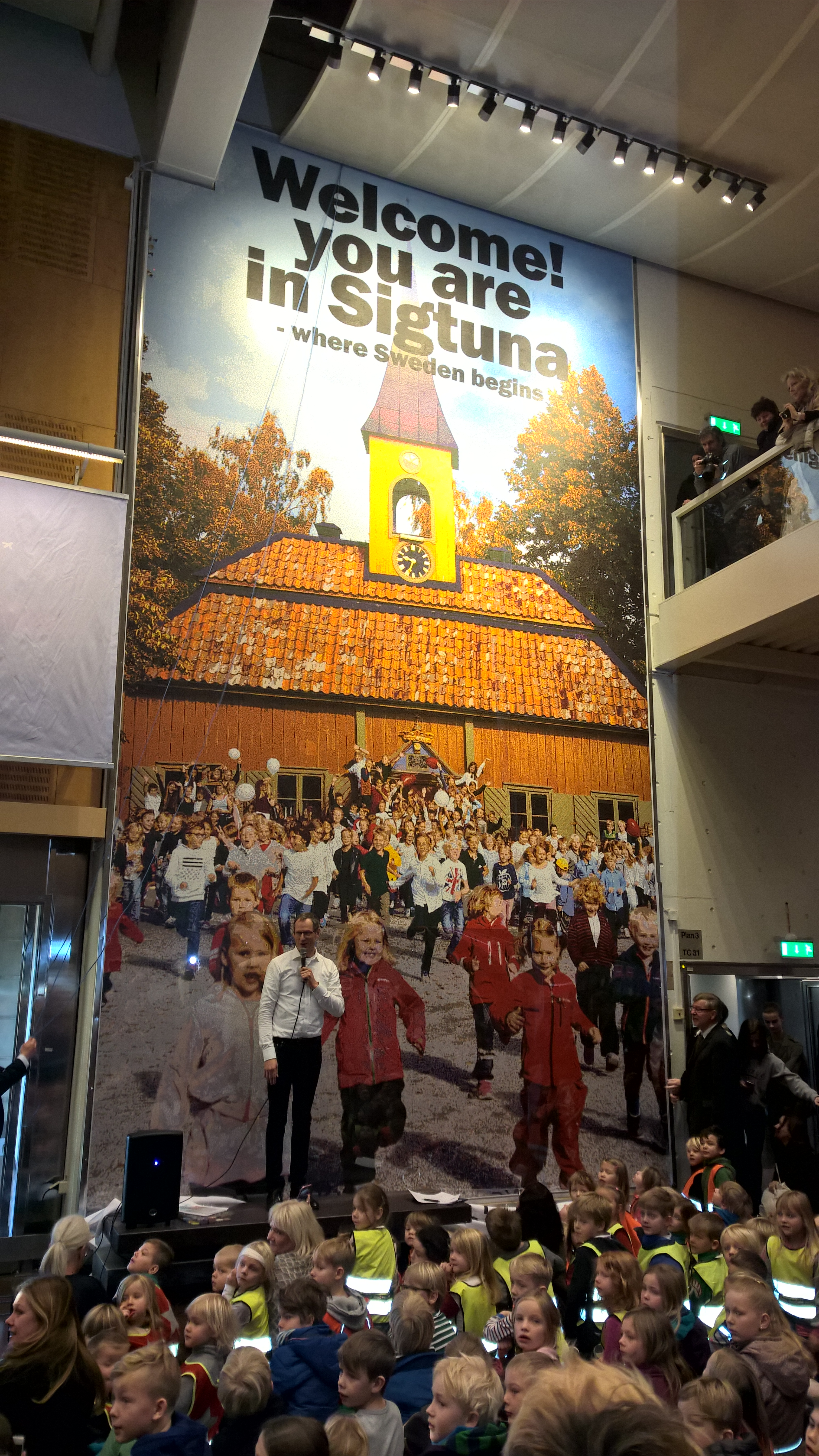 Stockholm Arlanda Airport, terminal 5. The world's largest plastic beads mosaic, consisting of 1 618 000 plastic beads, measuring 40,13 square meters.